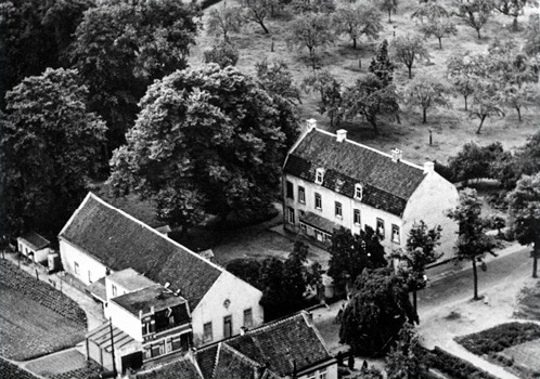 Maastricht, the Netherlands. Aerial view of Wittevrouwenhof in the Maastricht neighbourhood of Scharn. Unknown photographer, 1920.